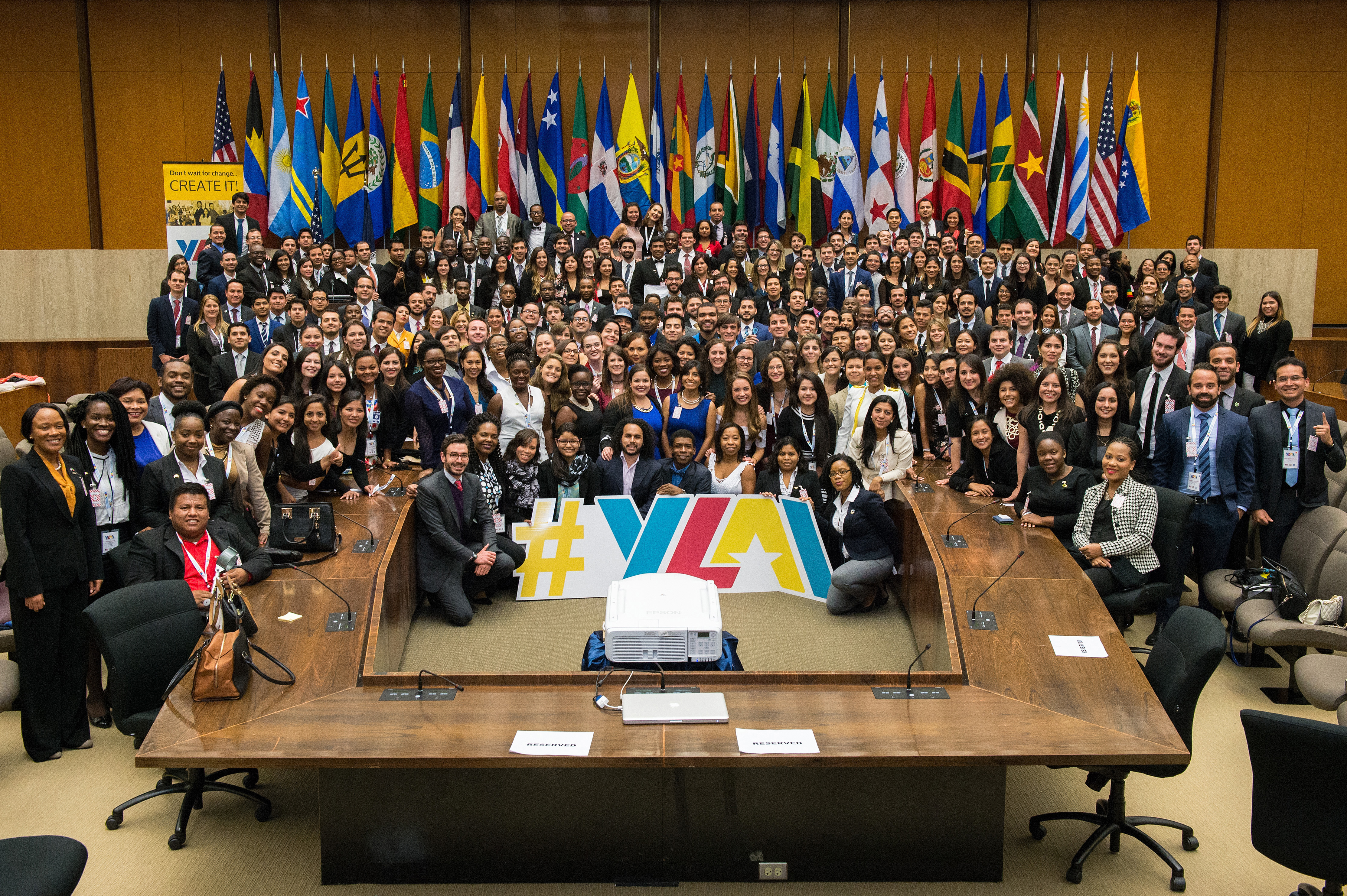 YLAI 2016 Cohort